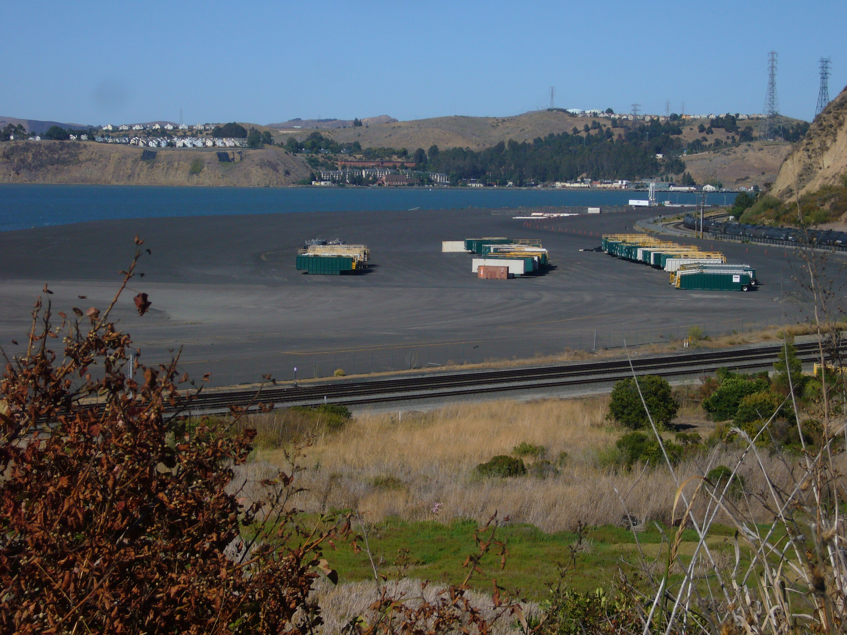 Containers beached on the outskirts of Rodeo, California